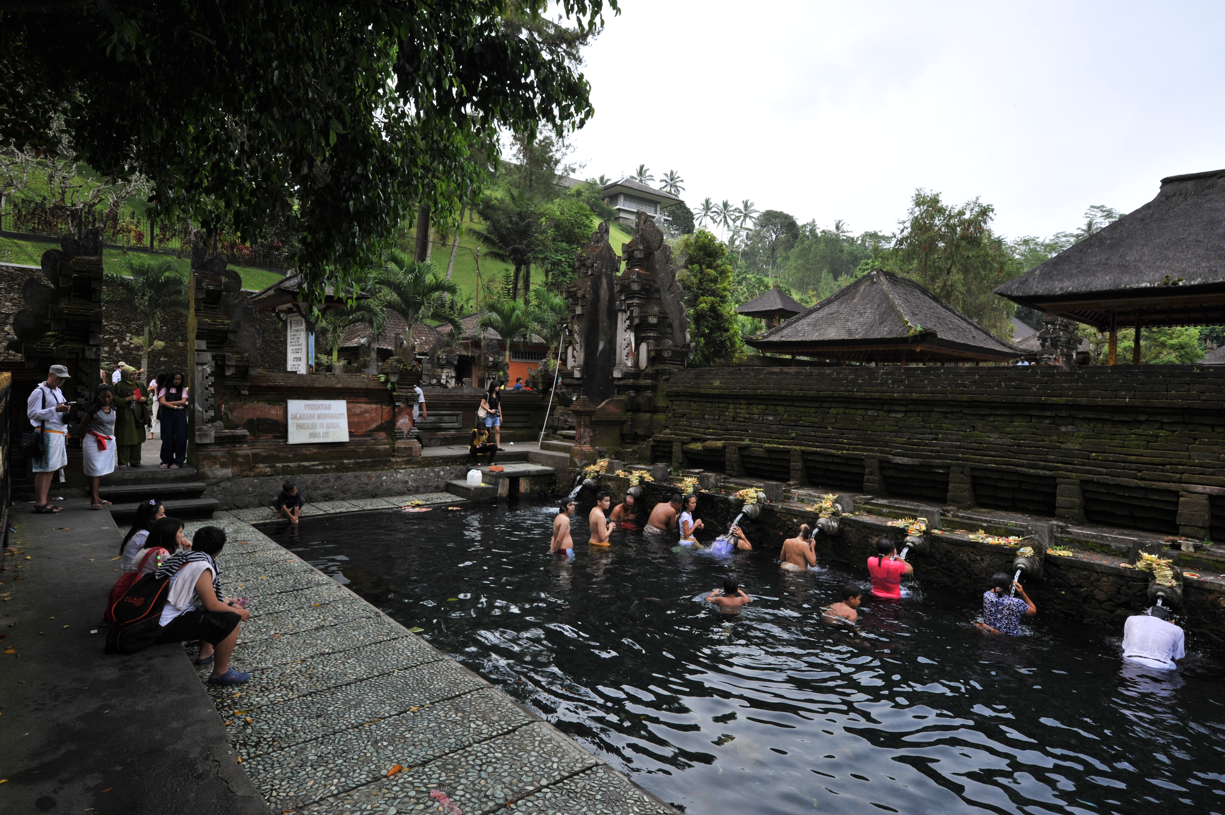 tirtha empul temple Bali indonesia 2011